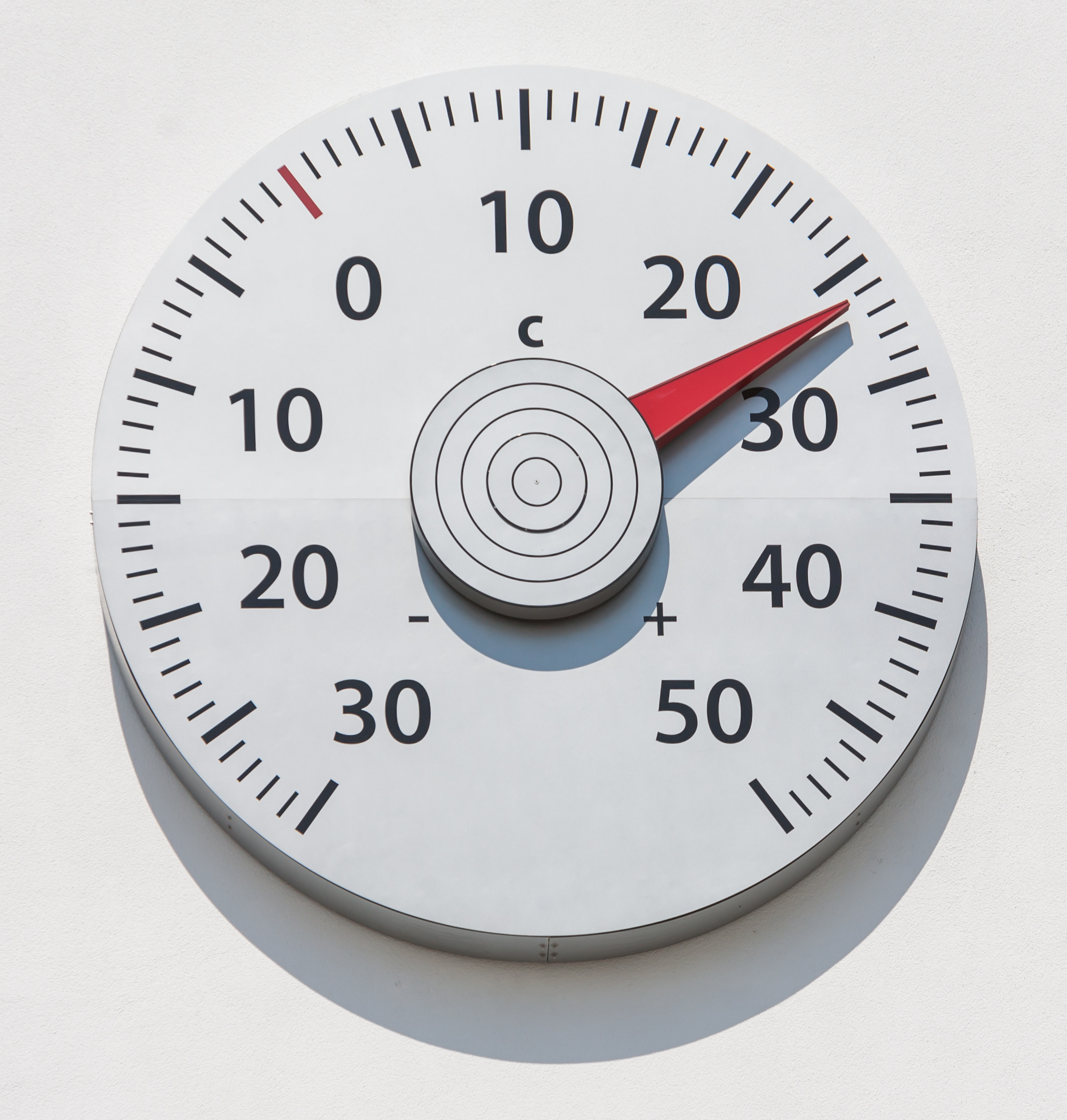 Außenthermometer (= outdoor thermometer) by Michael Sailstorfer (2012) at “Old highrise of members of parliament”, Platz der Vereinten Nationen 1, Bonn-Gronau; now used as office building by the secretary of the United Nations Framework Convention on Climate Change and part of the “UN-Campus”